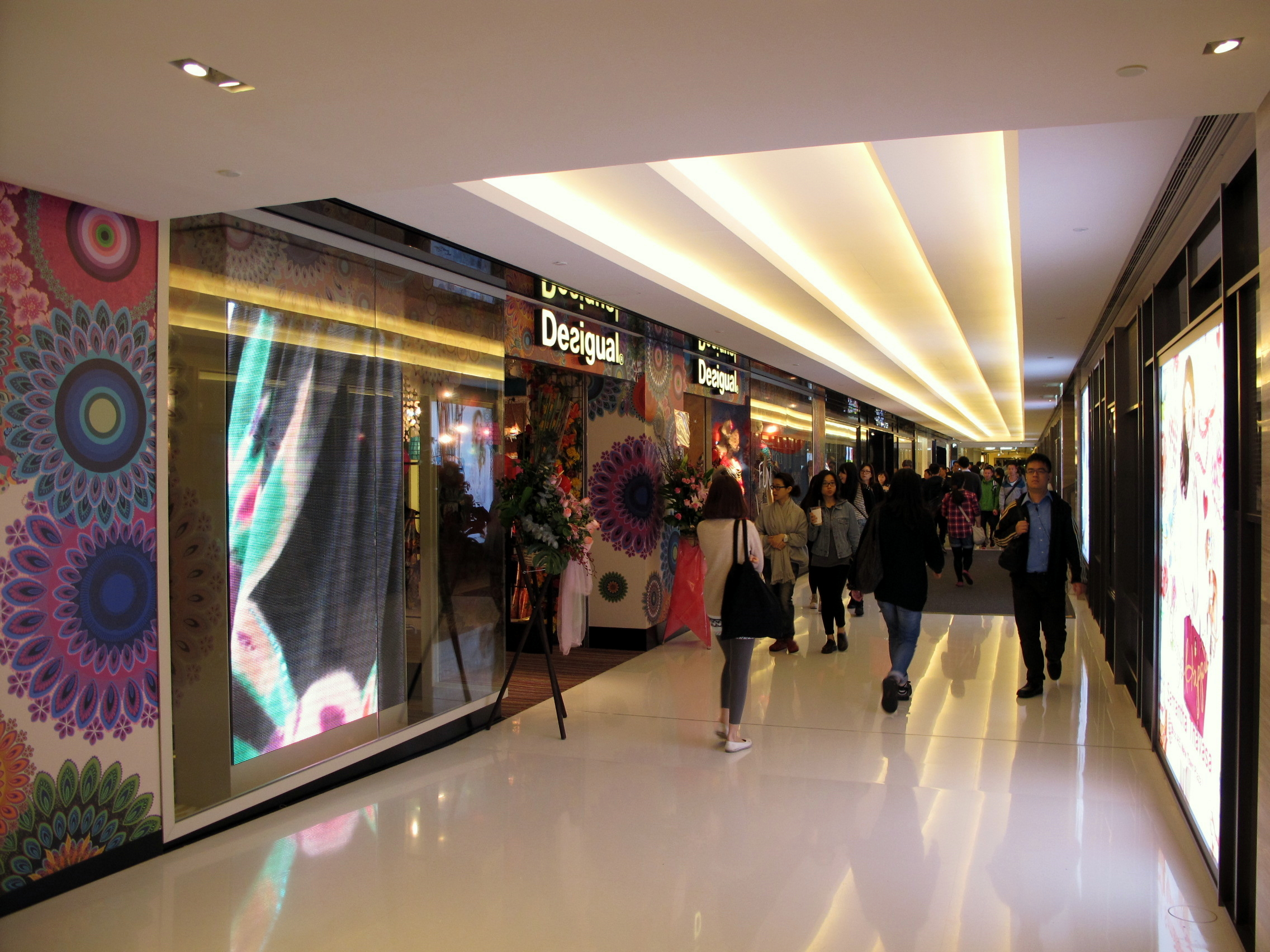 New Town Plaza Level 3 Access to Phase 3